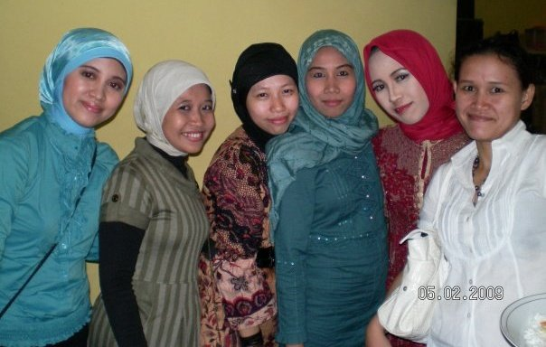 Hijab-Indonesia Anna Martadiningrat